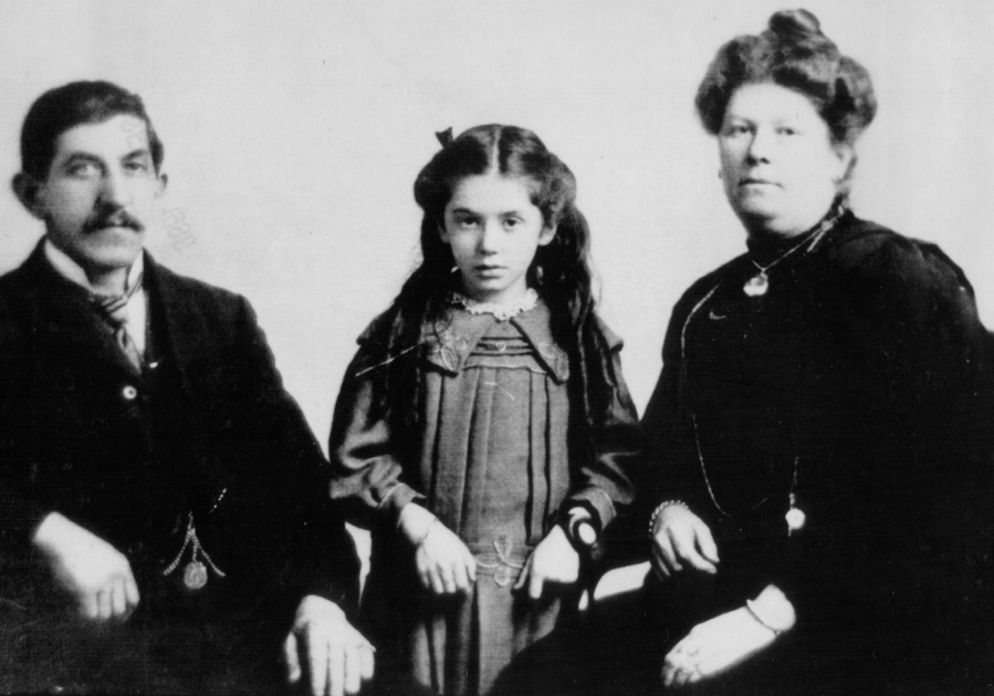 Hart family. Eva and Esther (center and right) survived the Titanic sinking, but Benjamin disappeared forever.